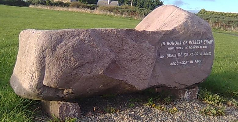 Monument to Robert Shaw (full) at Tourmackeady, Co. Mayo, Ireland.